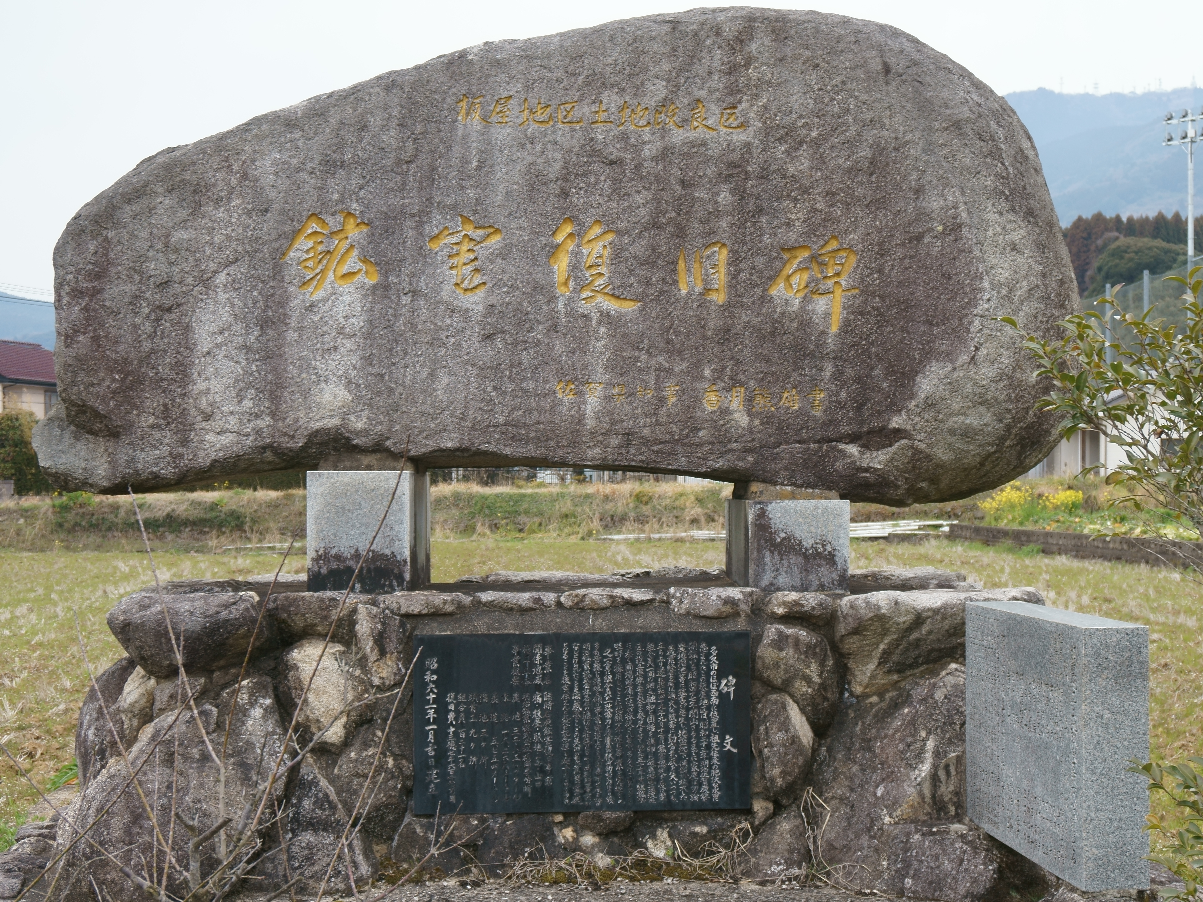 A monument of reconstruction from caved-in fields and canals in Itaya village, Taku city, Saga prefecture, Japan. It is damage caused by mining of former Meiji Saga Coal Mine(until 1972).